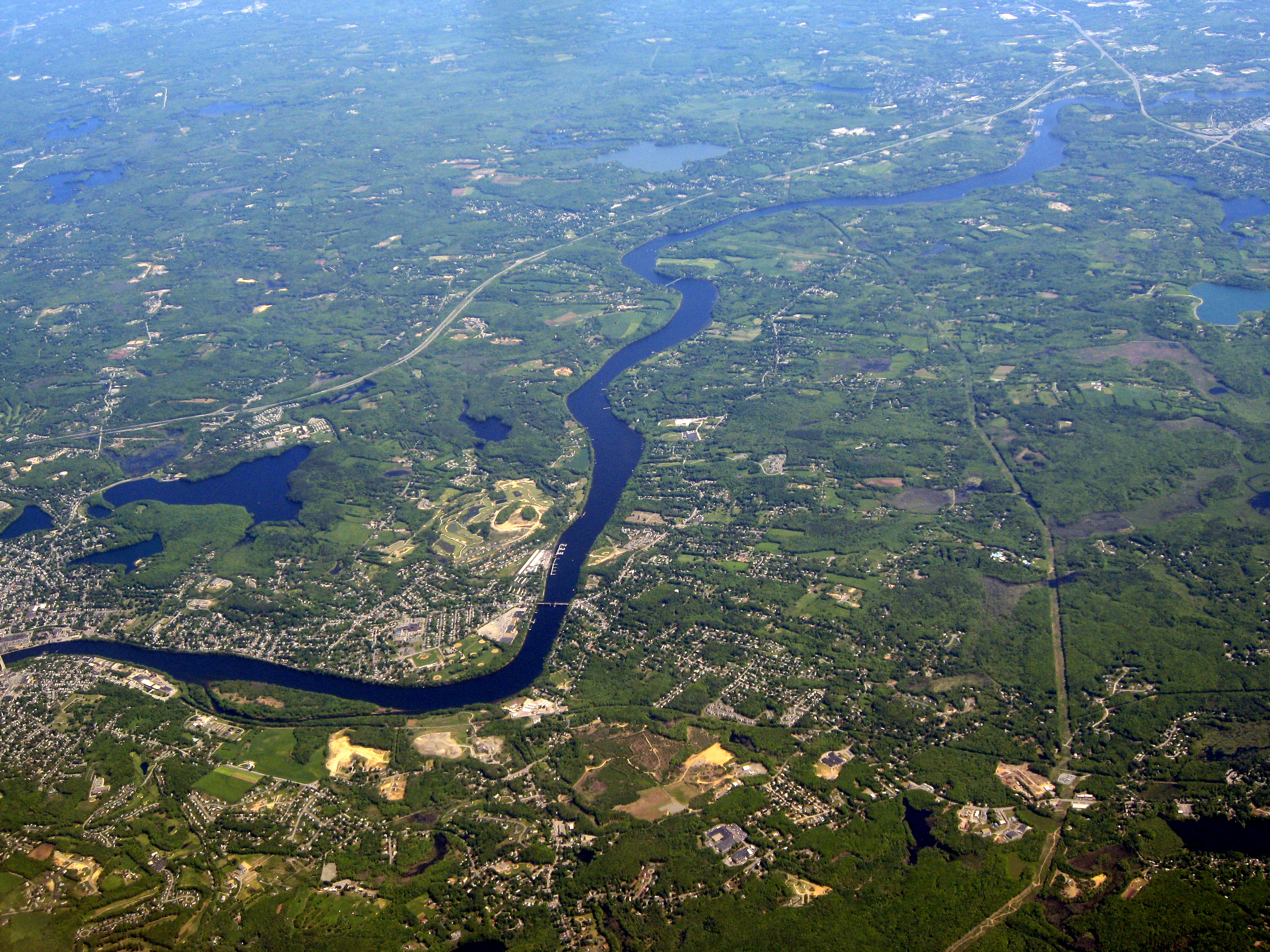 Aerial image of the Merrimack River as it flows from Haverhill to Newburyport, Massachusetts.